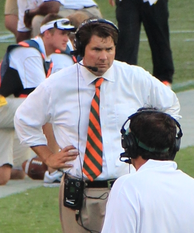 Miami Hurricanes football coach Al Golden, 2012.